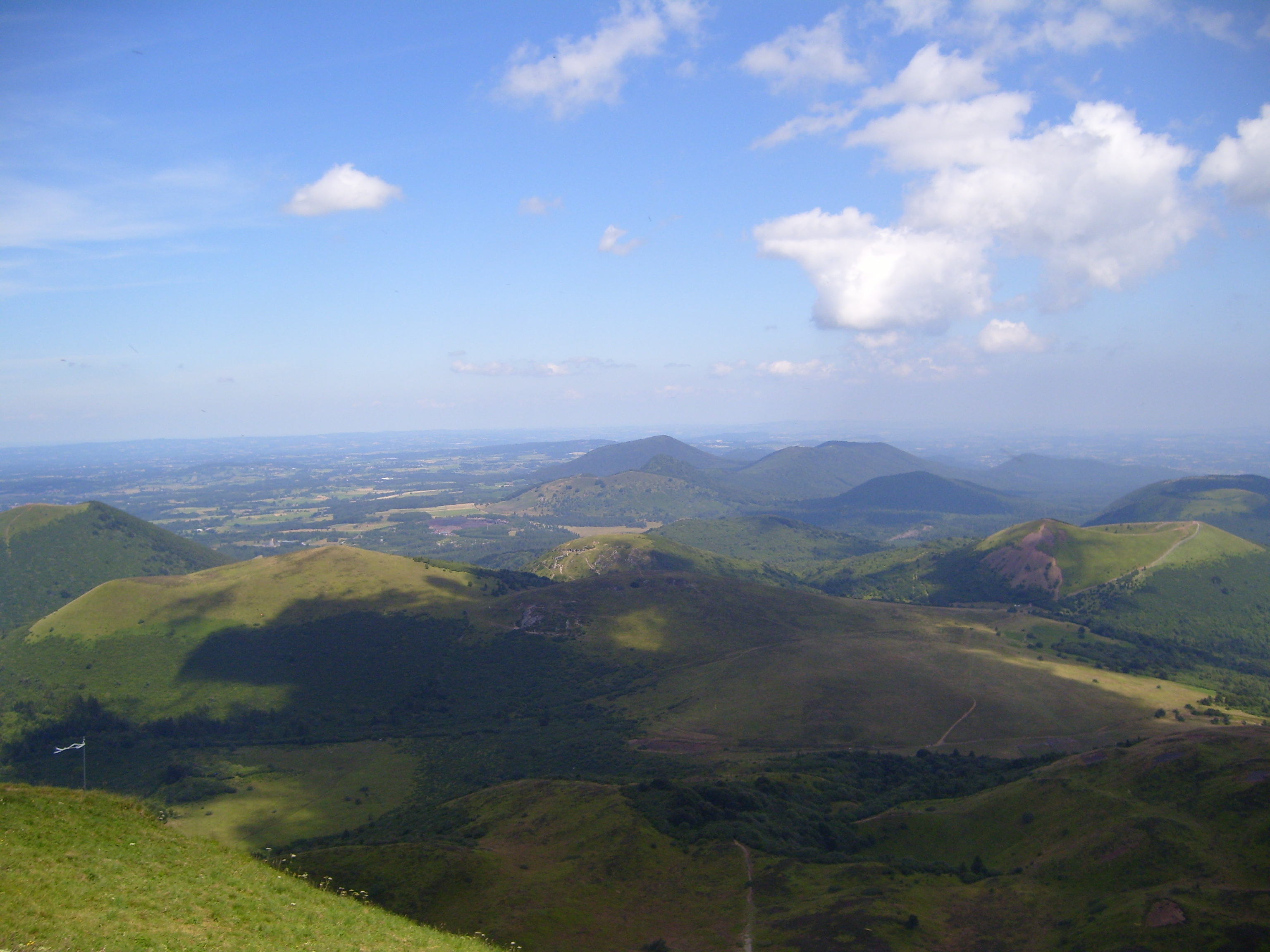 Description Quelques puys Date28 July 2008SourceOwn work by the original uploaderAuthorAtlasroutier Quelques puys